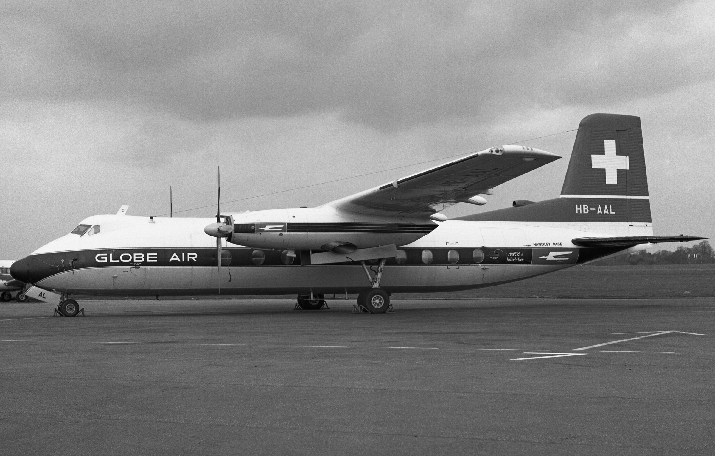 Handley Page HPR.7 Dart-Herald 210 HB-AAL, Globe Air, Southend, UK